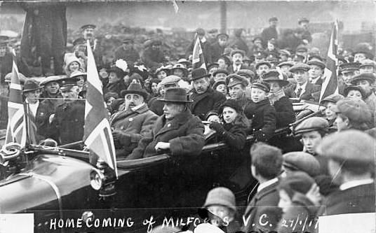 'Homecoming of Milford's VC 27/01/1917'. Hubert William Lewis returns to his hometown of Milford Haven following the awarding of the Victoria Cross.